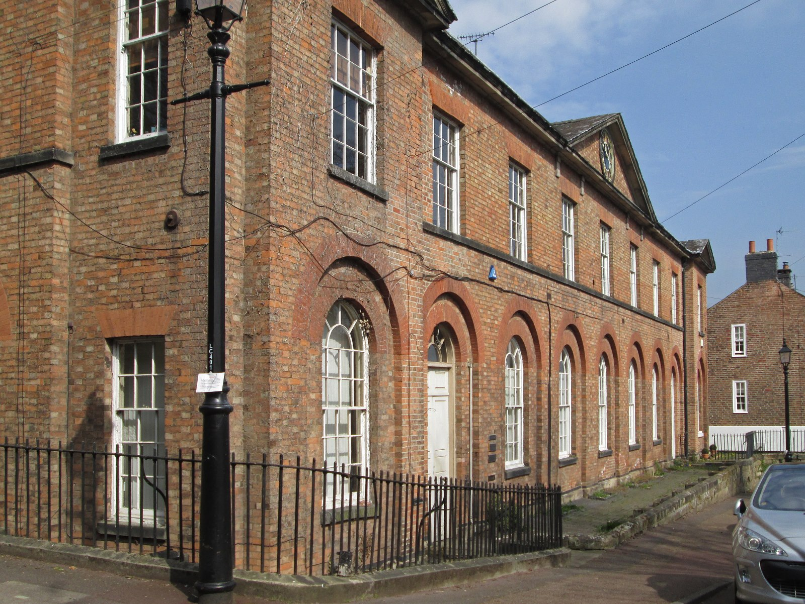 Darley Abbey - former St Matthews School - Brick Row frontage